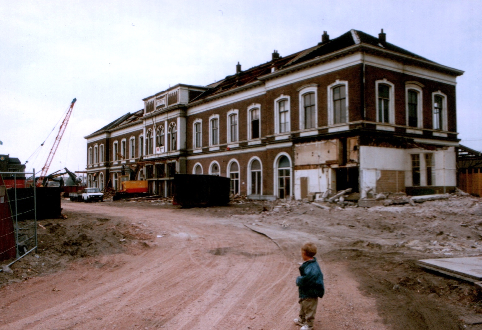 Demolition Hilversum railway station in 1990